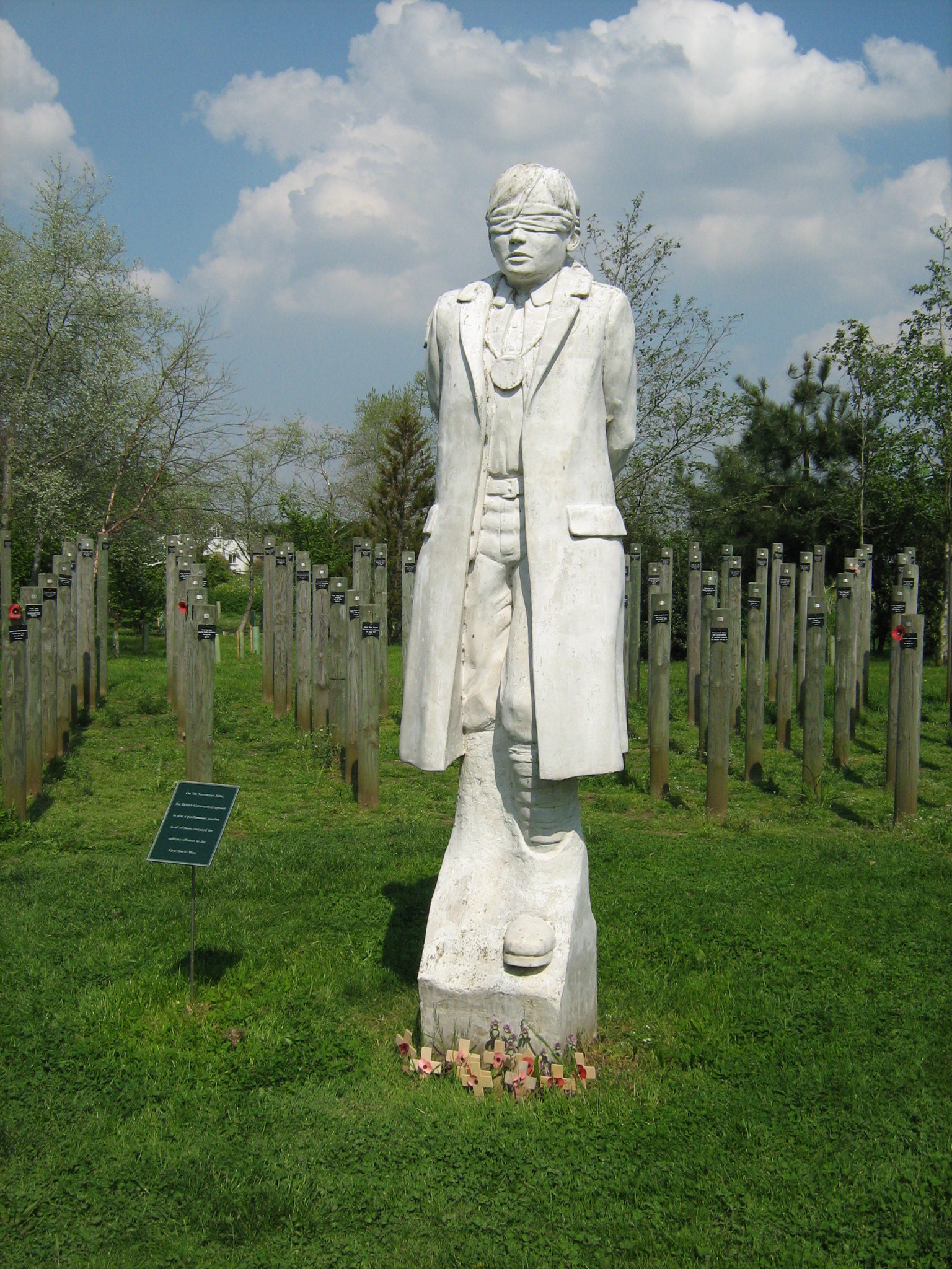 Shot at Dawn Memorial, National Memorial Arboretum near Alrewas, Staffordshire (7 May 2008)